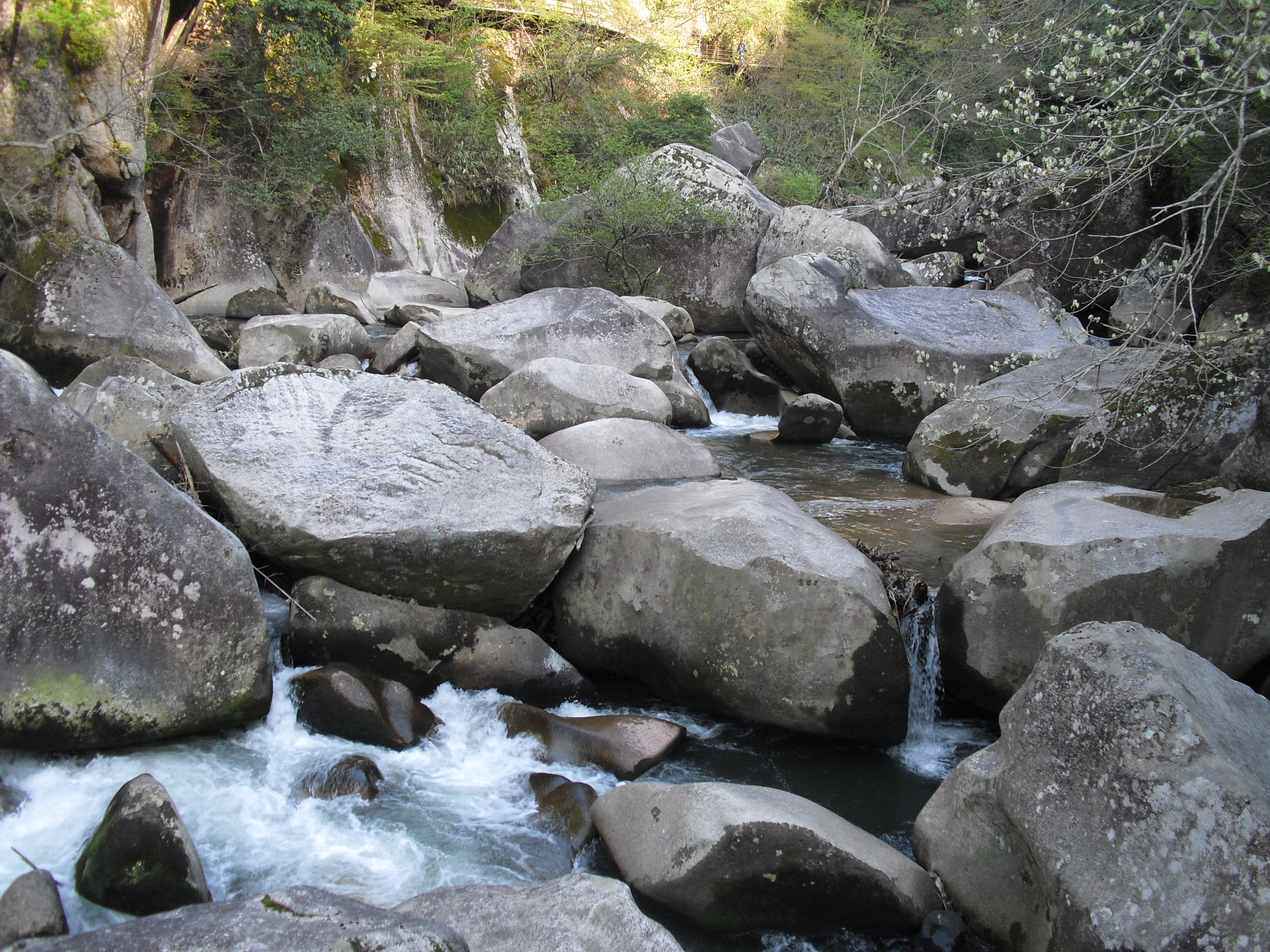 Oninoshitaburui